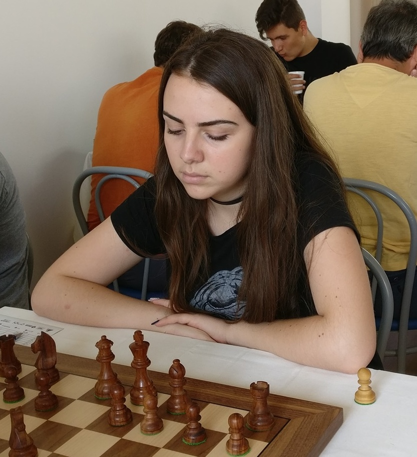 Salimova in Romania,2017